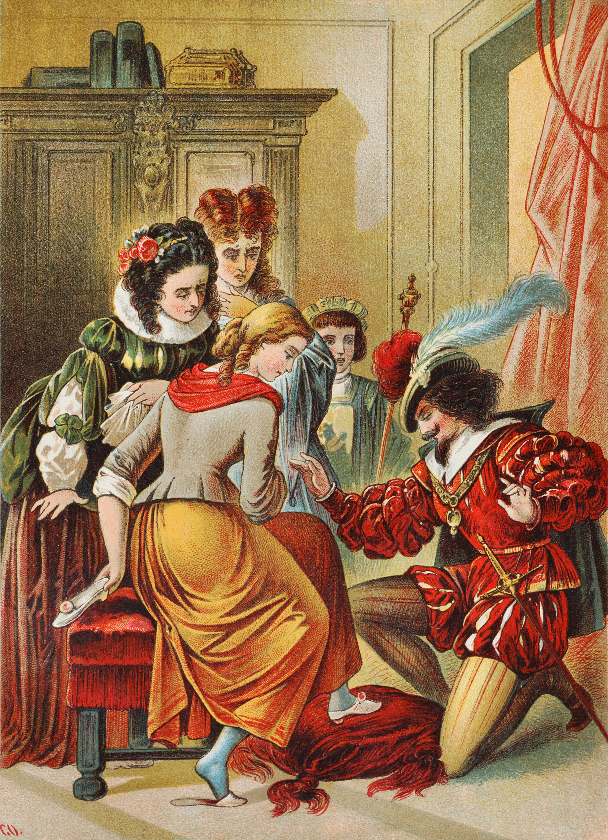 Cinderella, illustration by Carl Offterdinger